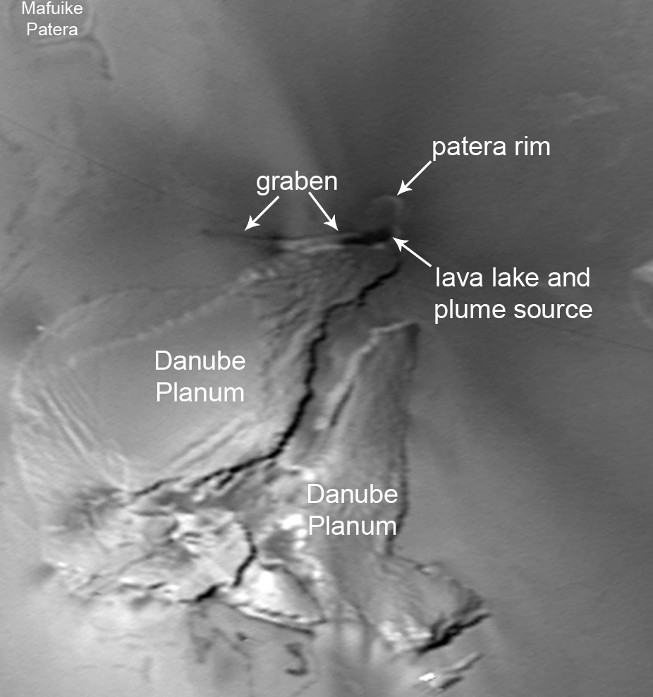 Pele volcano and the surrounding region on Jupiter's moon Io. Original Voyager 1 narrow-angle camera frame, c1639130, reprojected into a simple cylindrical map projection with a resolution of 365 meters per pixel. Labels added to image to point out surface feature for Pele article.